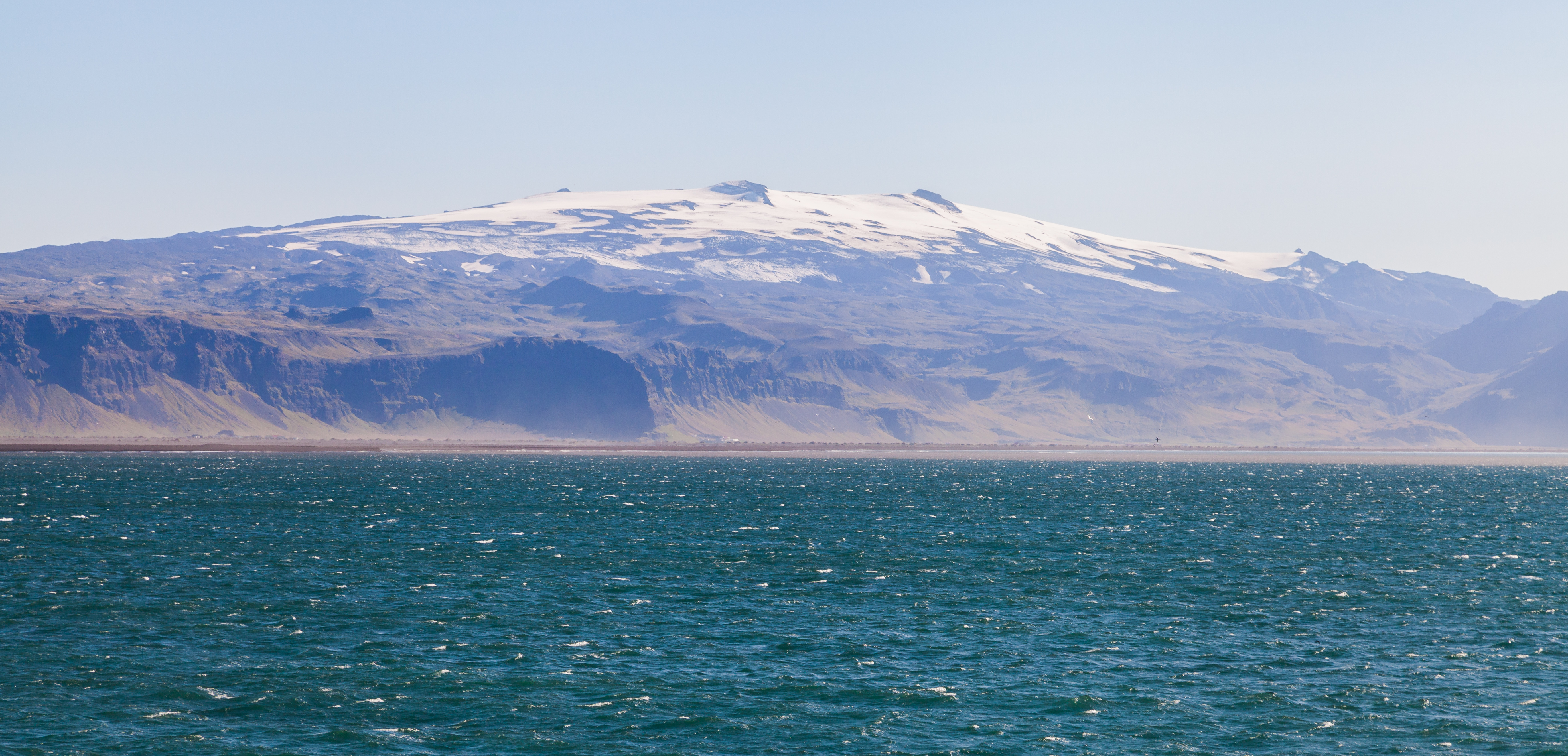 Eyjafjallajökull, Suðurland, Iceland